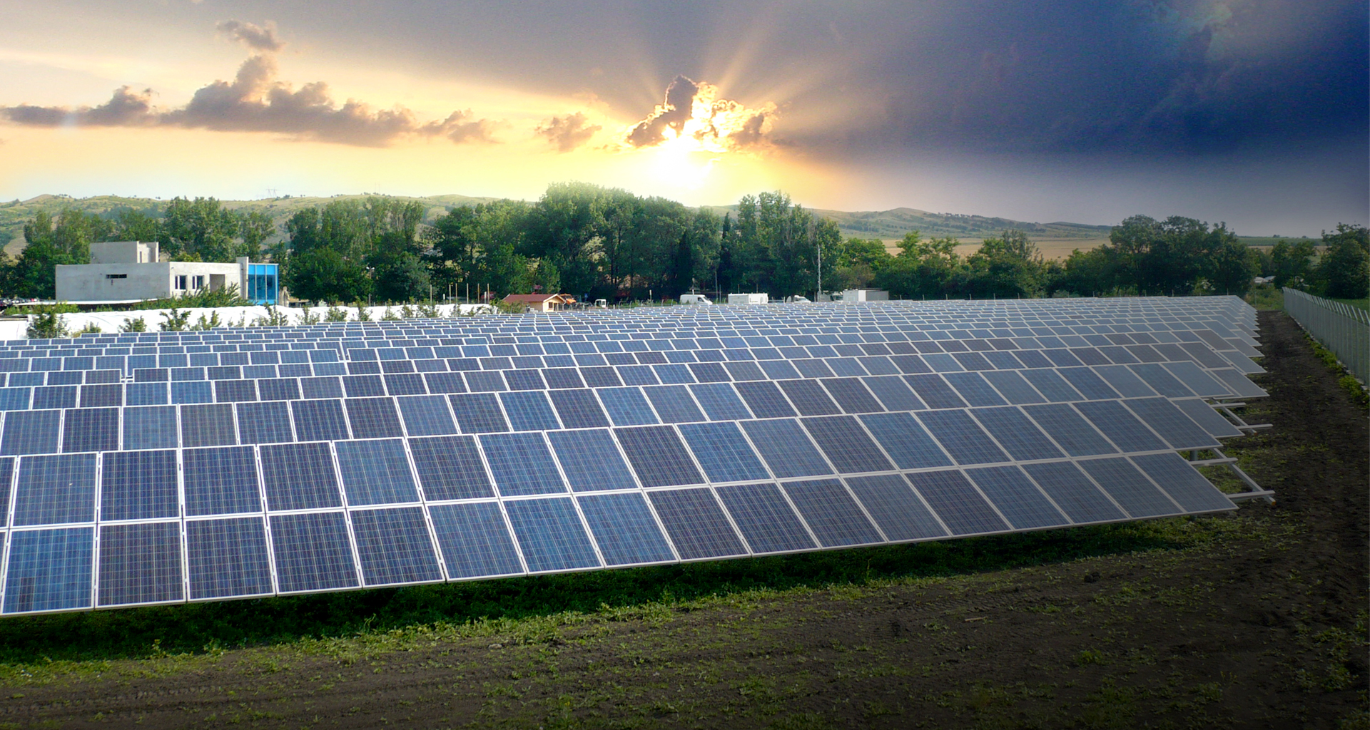 METKA EGN